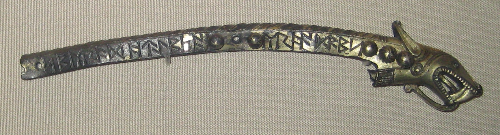 Photograph of British Museum 1869,0610.1